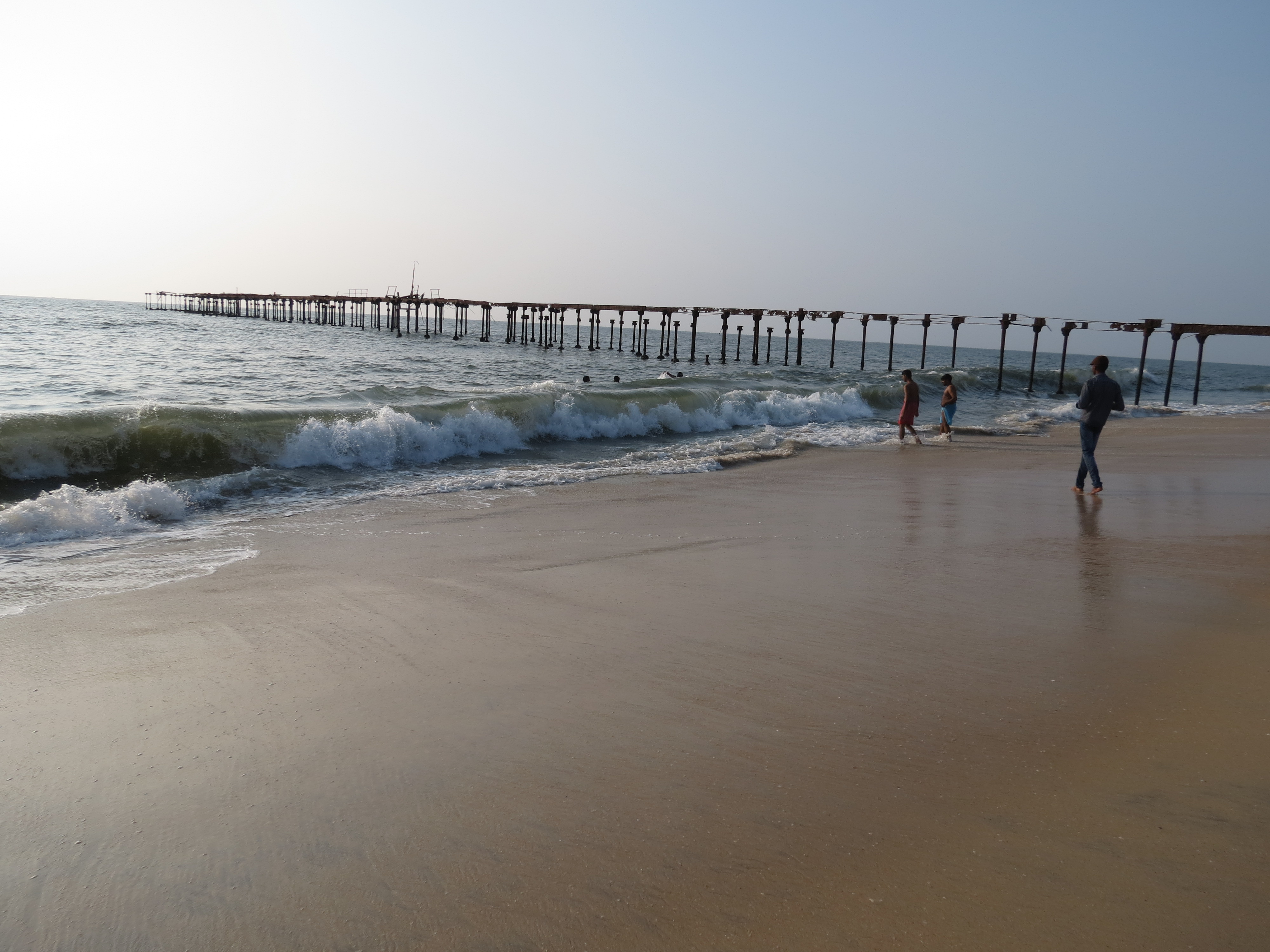 A view of old sea bridge near Alappuzha beach